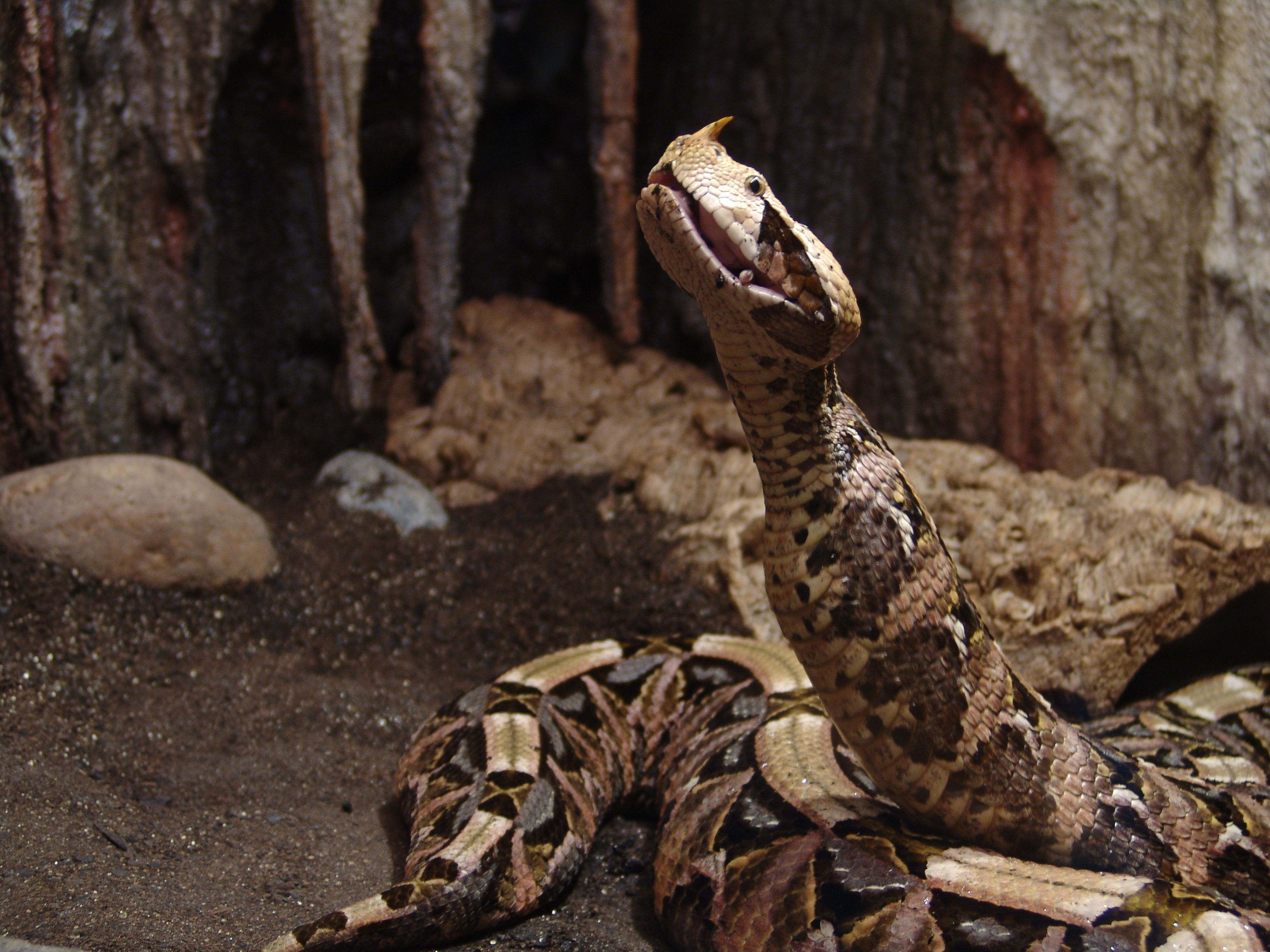 Gaboon Viper at Wilmington's Serpentarium, it is eating a rodent. I took the picture.